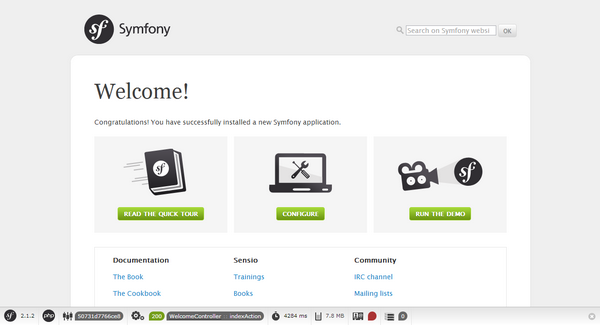 Default index page of a Symfony Project